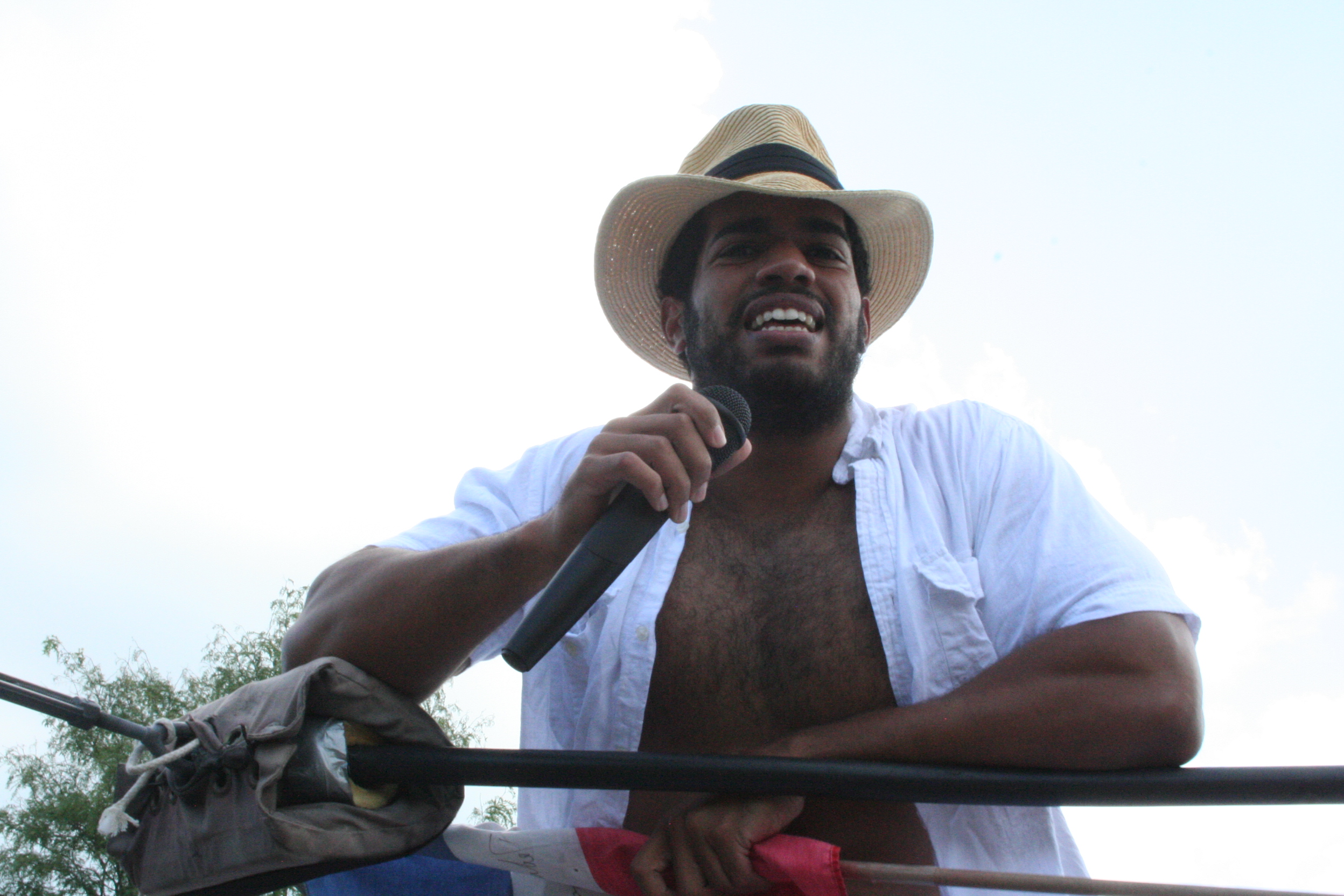 Professional Wrestler Manny Garcia